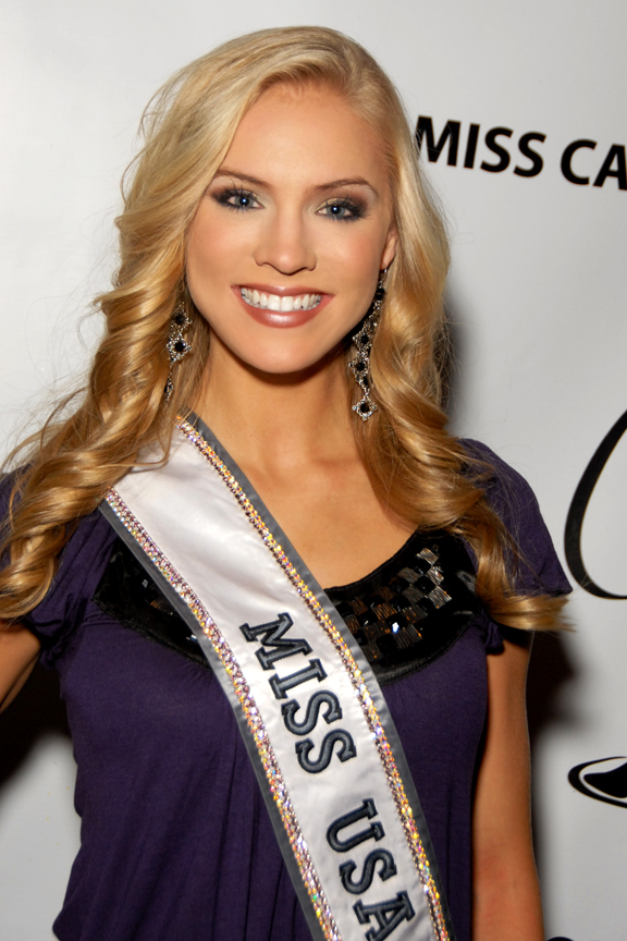 Kristen Dalton attending the Miss California Pagent, Palm Springs, CA on Nov. 21, 2009 - Photo by Glenn Francis of